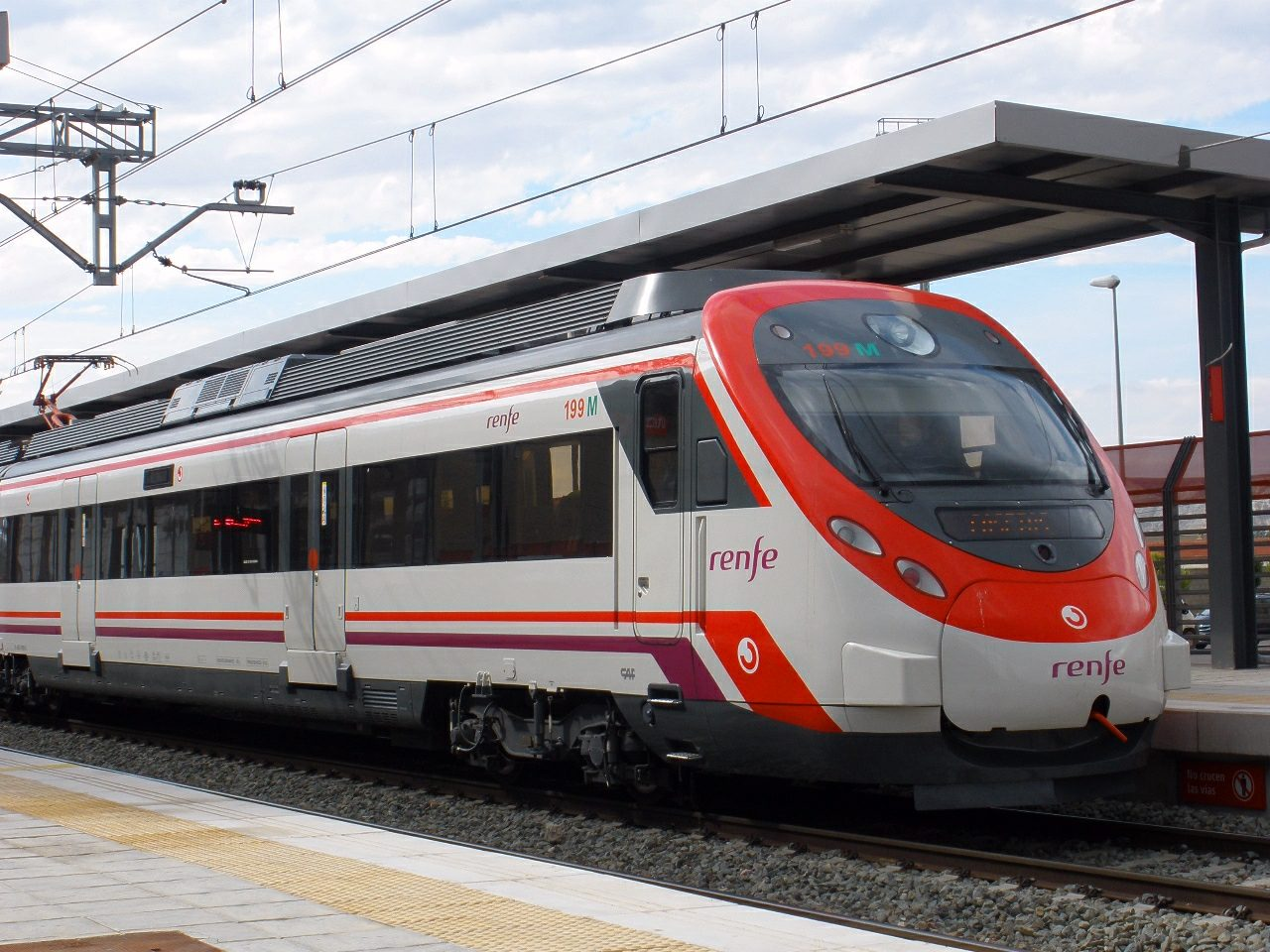 Unidad de servicio de Cercanías de RENFE clase Civia, en la Estación de Utebo (Zaragoza, Aragón, España)